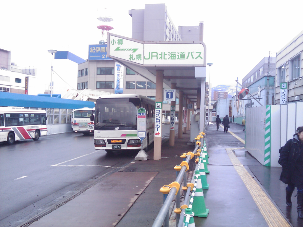 Otaru Station bus terminal (for JR Hokkaido Bus) (Otaru)